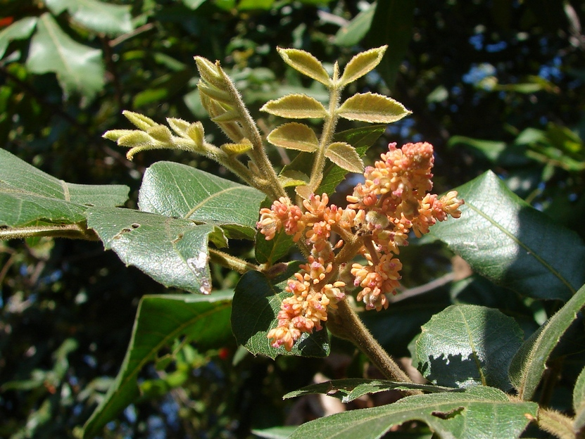 Australian rainforest tree - flowers and new leaves